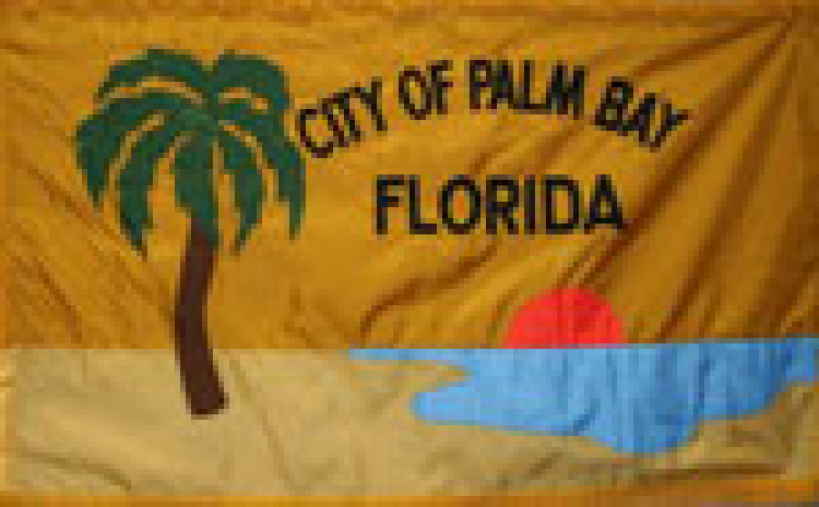 Flag of Palm Bay, Florida